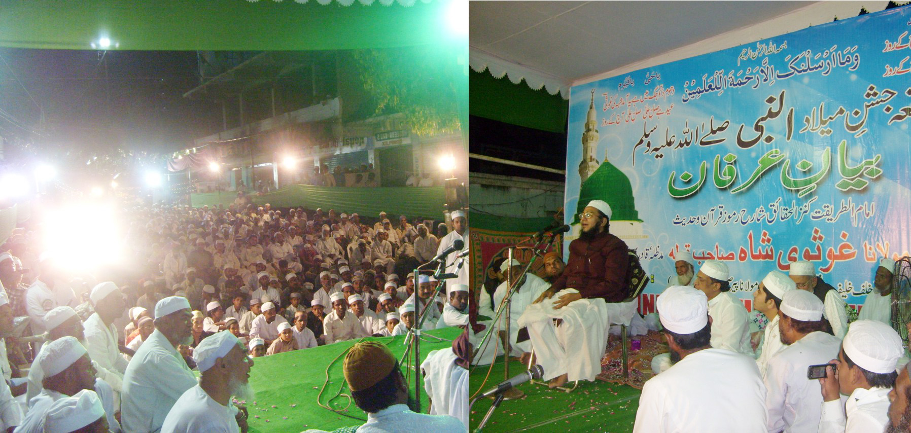 Moulana Ghousavi Shah Speech on Jalsa-E-Milad-Un-Nabi at sangareddy